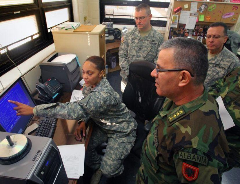 A Soldier from the New Jersey National Guard explains the Standard Army Retail Supply System to a Logistic Brigade Commander with the Albanian Army, at the United States Property and Fiscal Office Warehouse in Lawrenceville.